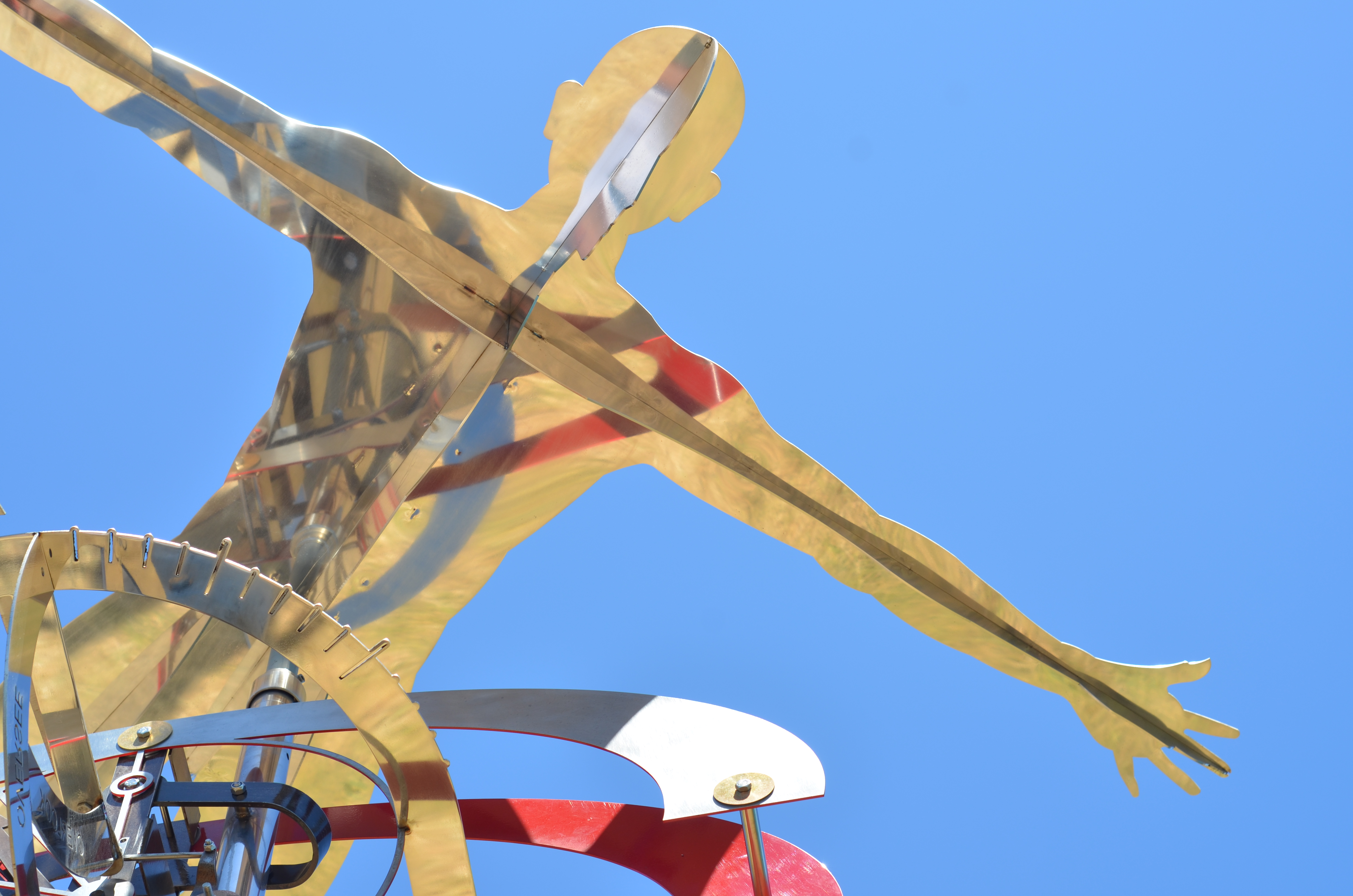 Graham Bennett: Overview